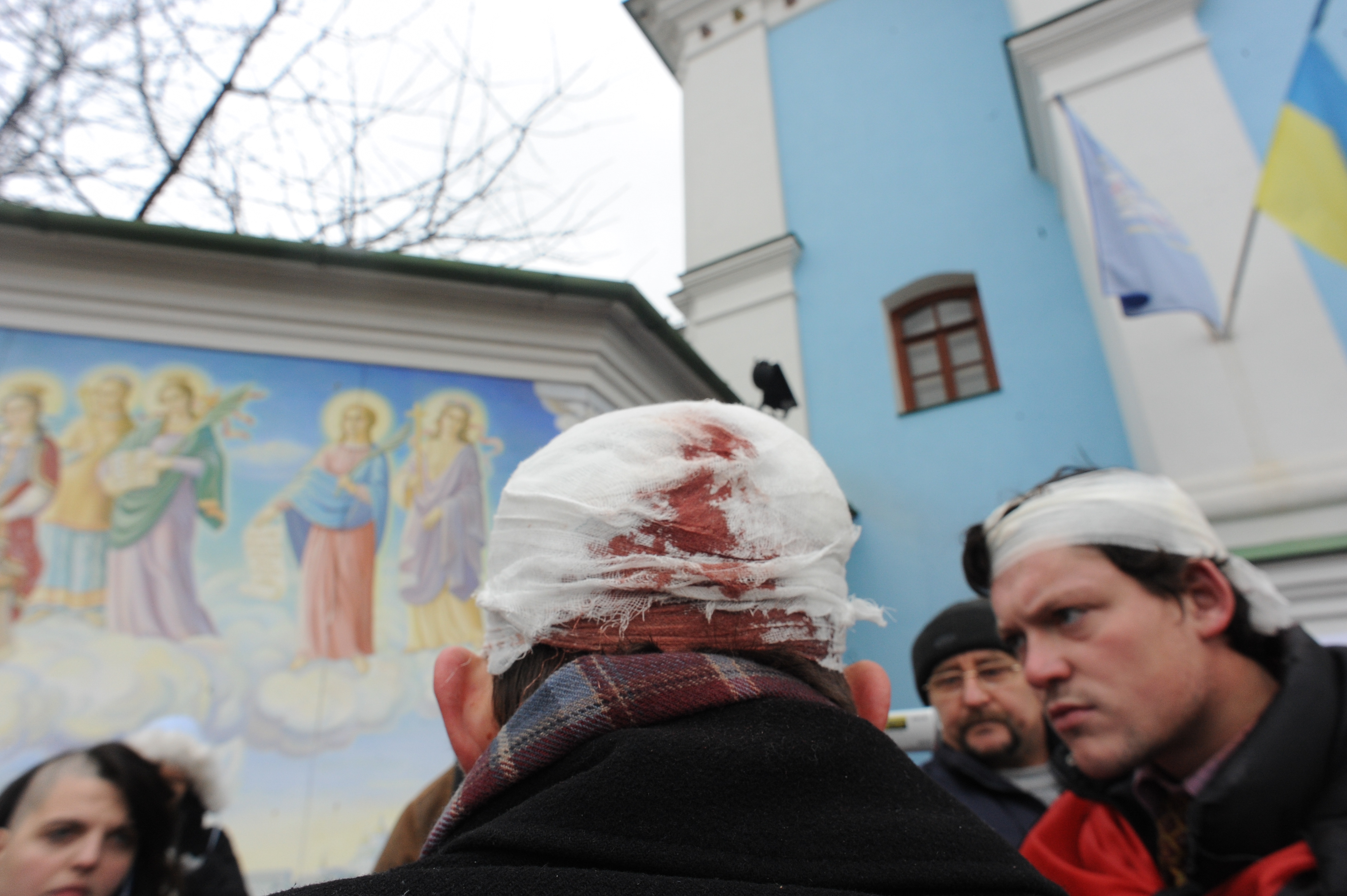 Injuried protesters seen after violent assault on main square, Kiev. November 30, 2013.